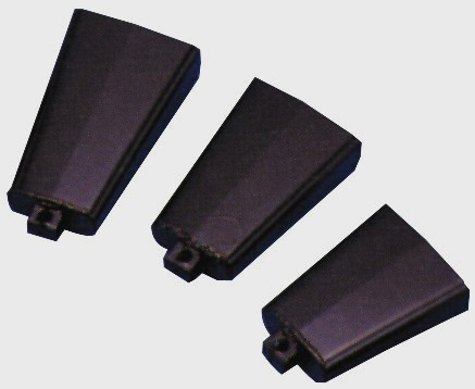 A row consisting of three cowbells.